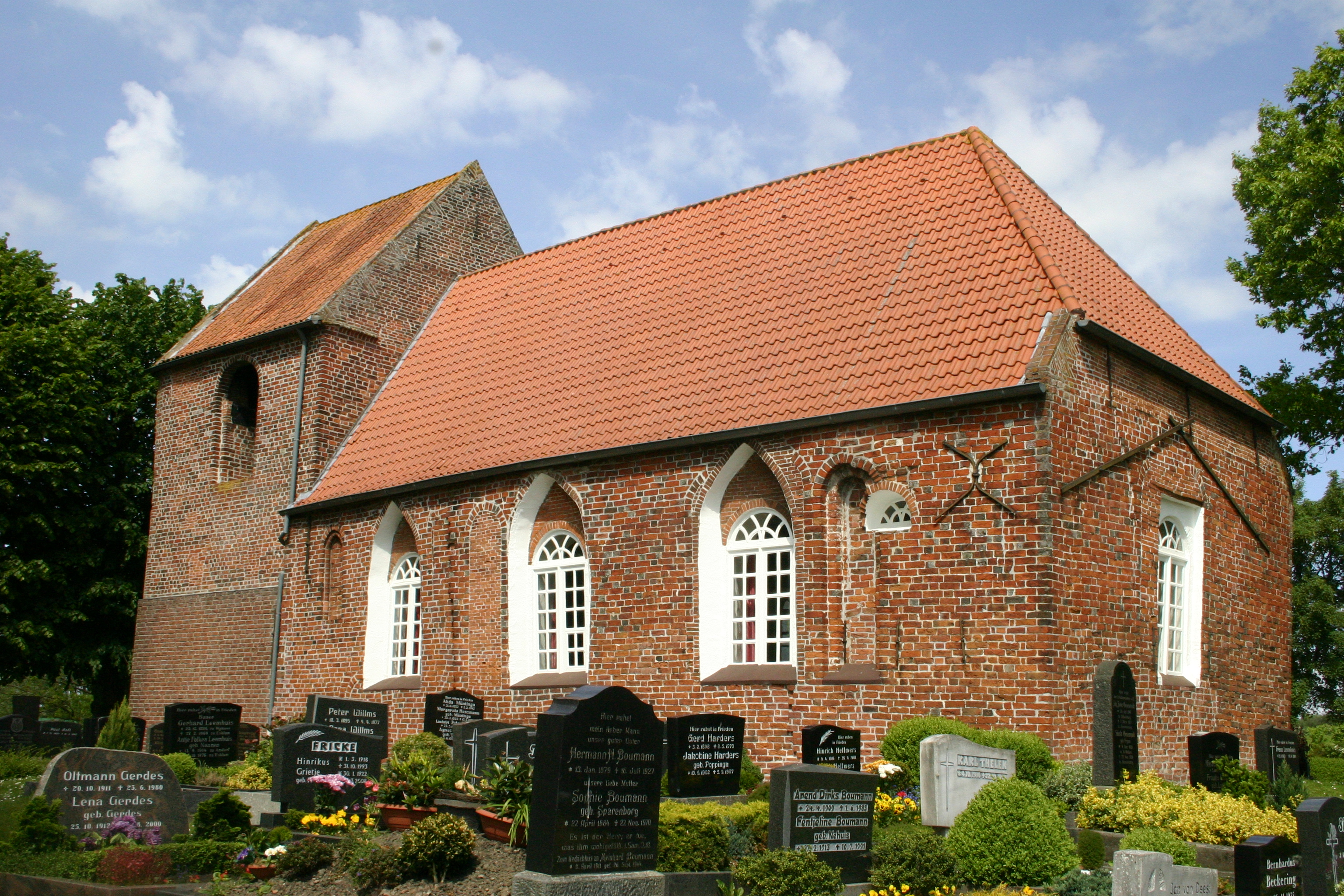 Historic church in Esklum, district of Leer, East Frisia, Germany